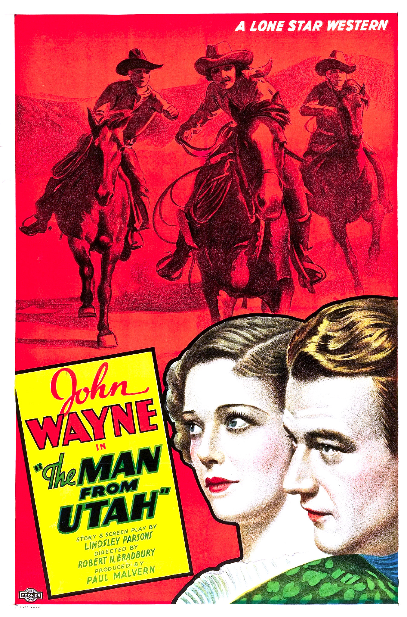 Poster for the 1934 film The Man From Utah. There are no copyright marks on the poster. At lower left is the Tooker Litho Co. logo--they printed the poster- and Made in USA.